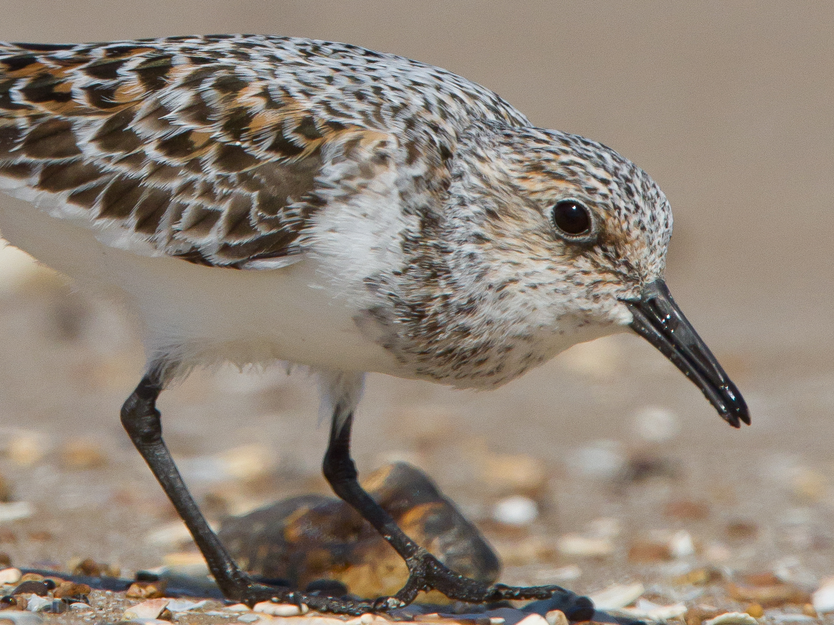 Sanderling in High Island, Texas